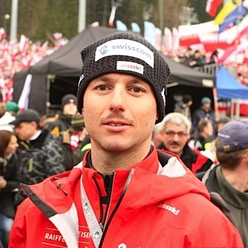 Martin Künzle during Adam's Bull's Eye on 26 March 2011 in Zakopane.